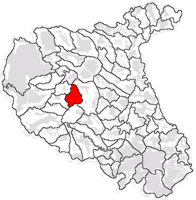 Map of limits of commune in Vrancea County